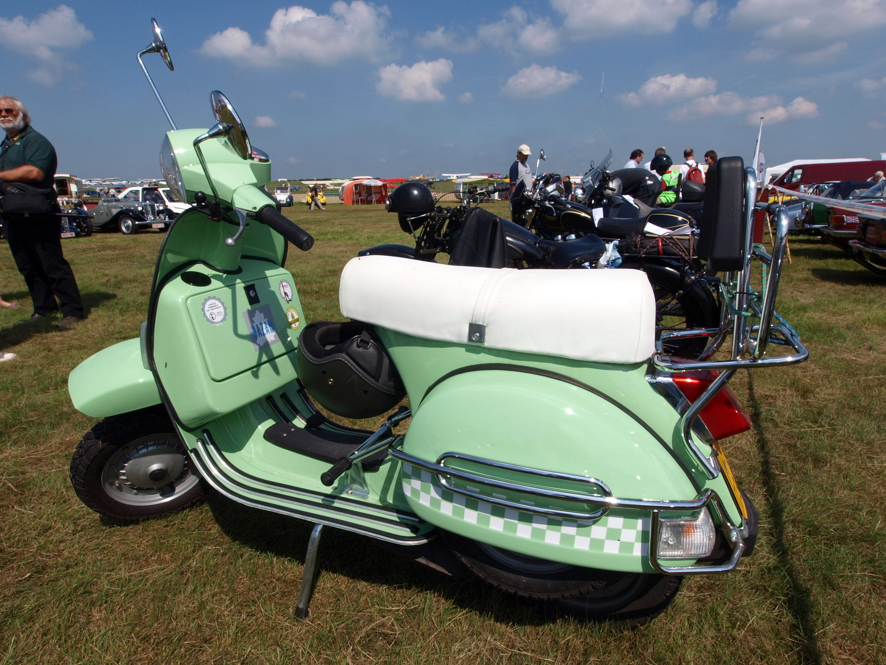 LML scooter at The International Oldtimer Fly and Drive In 2010, Schaffen-Diest, Belgium.